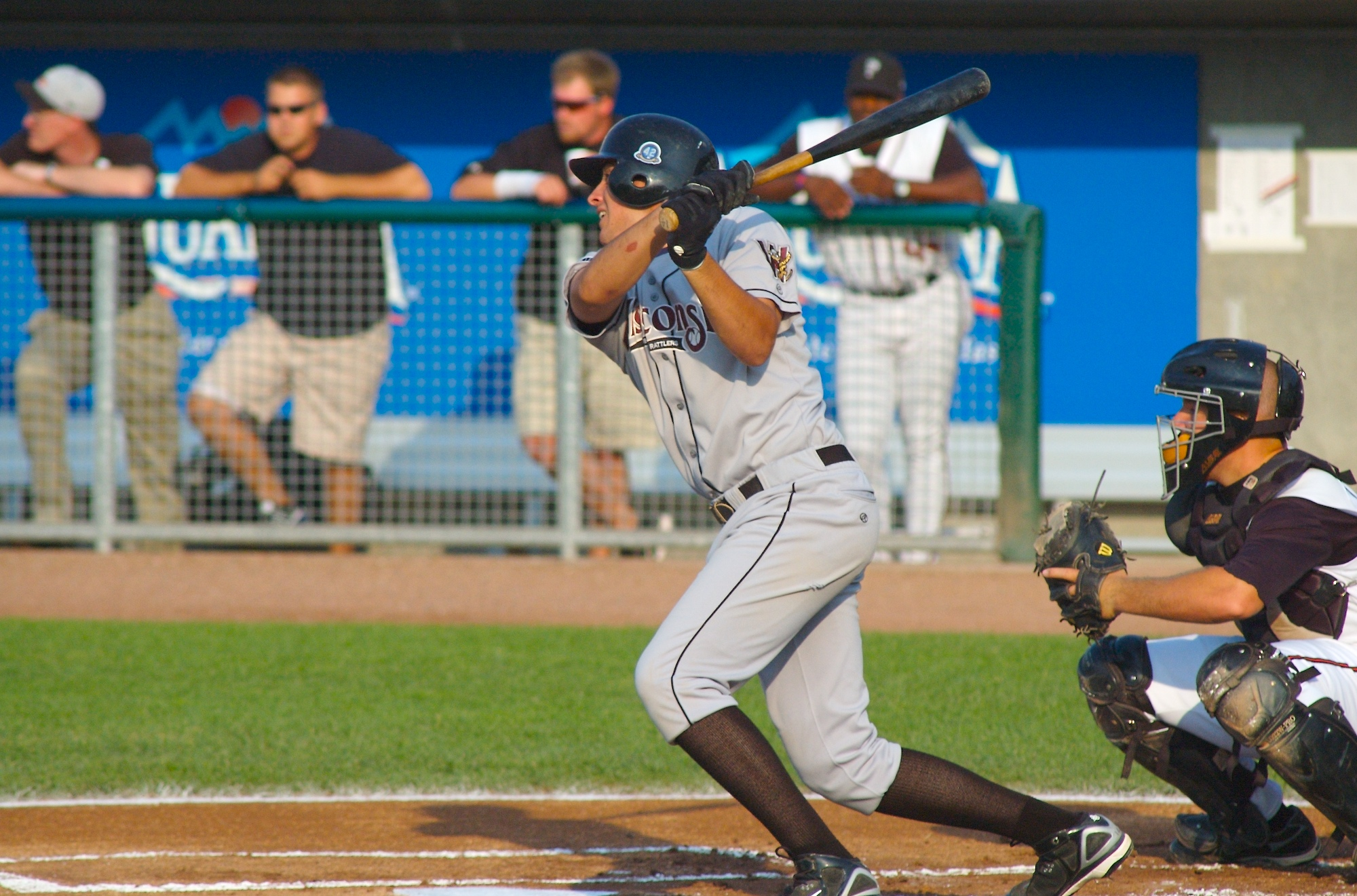 Alex Liddi playing for the Wisconsin Timber Rattlers in 2007.